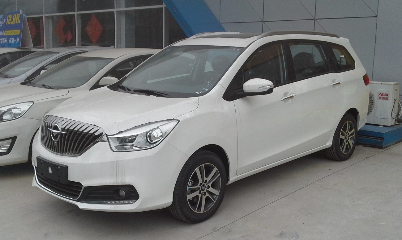 Haima V70 photographed in Zhanjiang, Guangdong province, China.